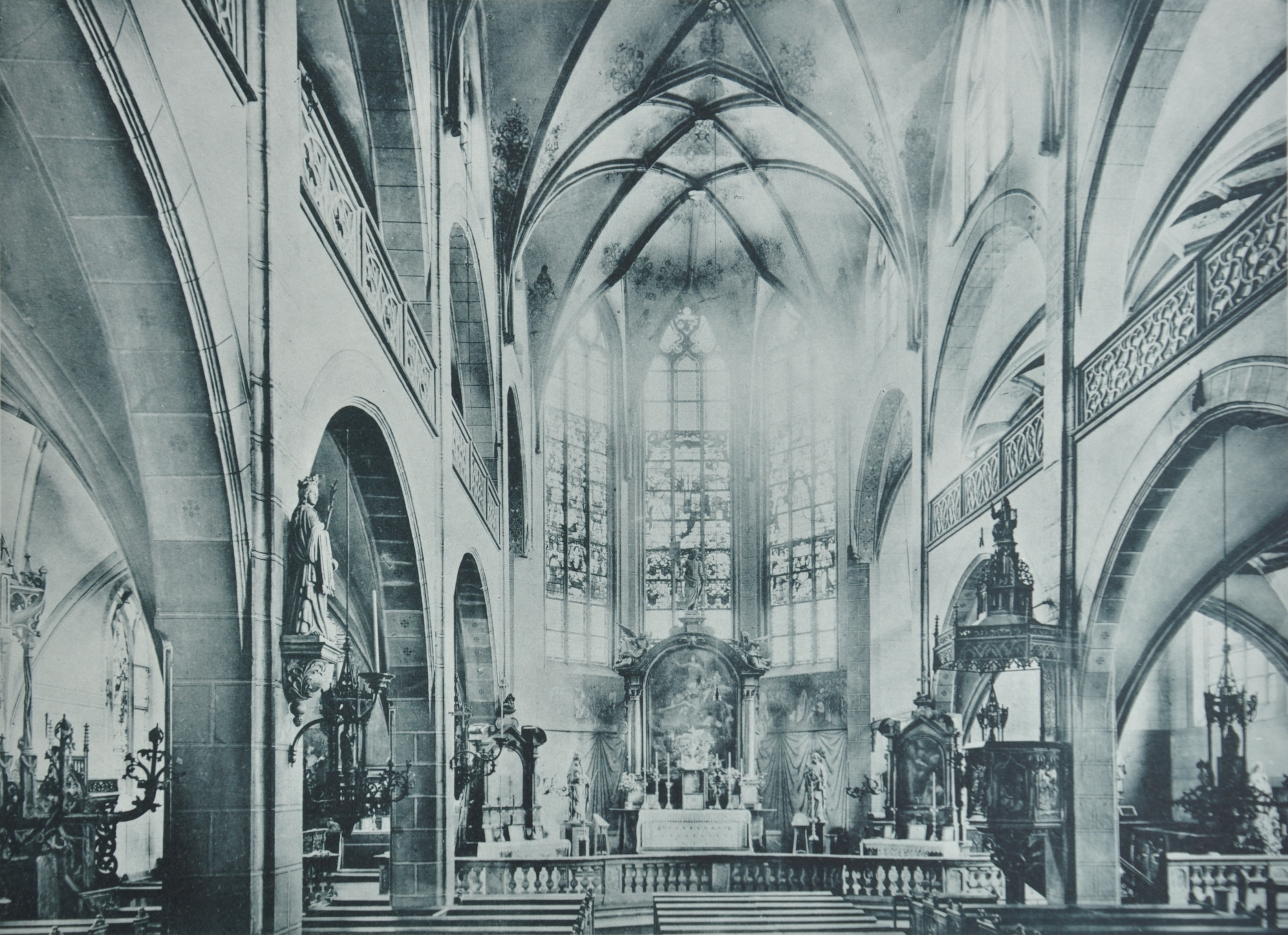 Plate 39. Die Peterskirche. Inneres from Koeln in Bildern (Cologne in pictures), Paul Neubner, Cologne 1896.